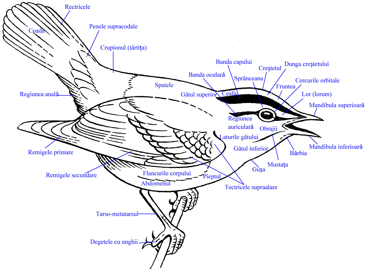 External anatomy - whole bird